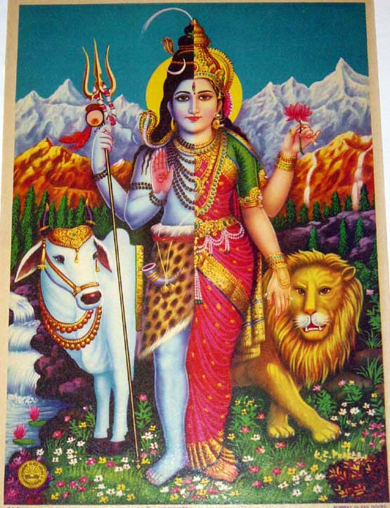 Arddhanarishvara, bazaar art, 1940's